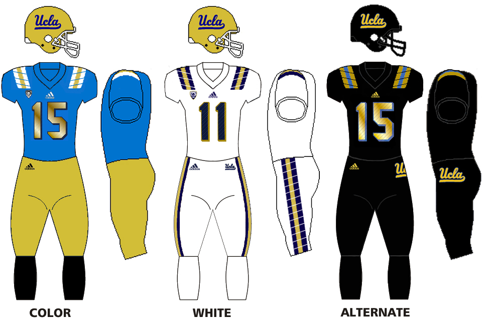 An update file to display the most recent versions of the UCLA Bruins for the 2015 season. Other information Any logos/images used in this file were necessary as there was no other way to effectively make this image without utilizing the logos.